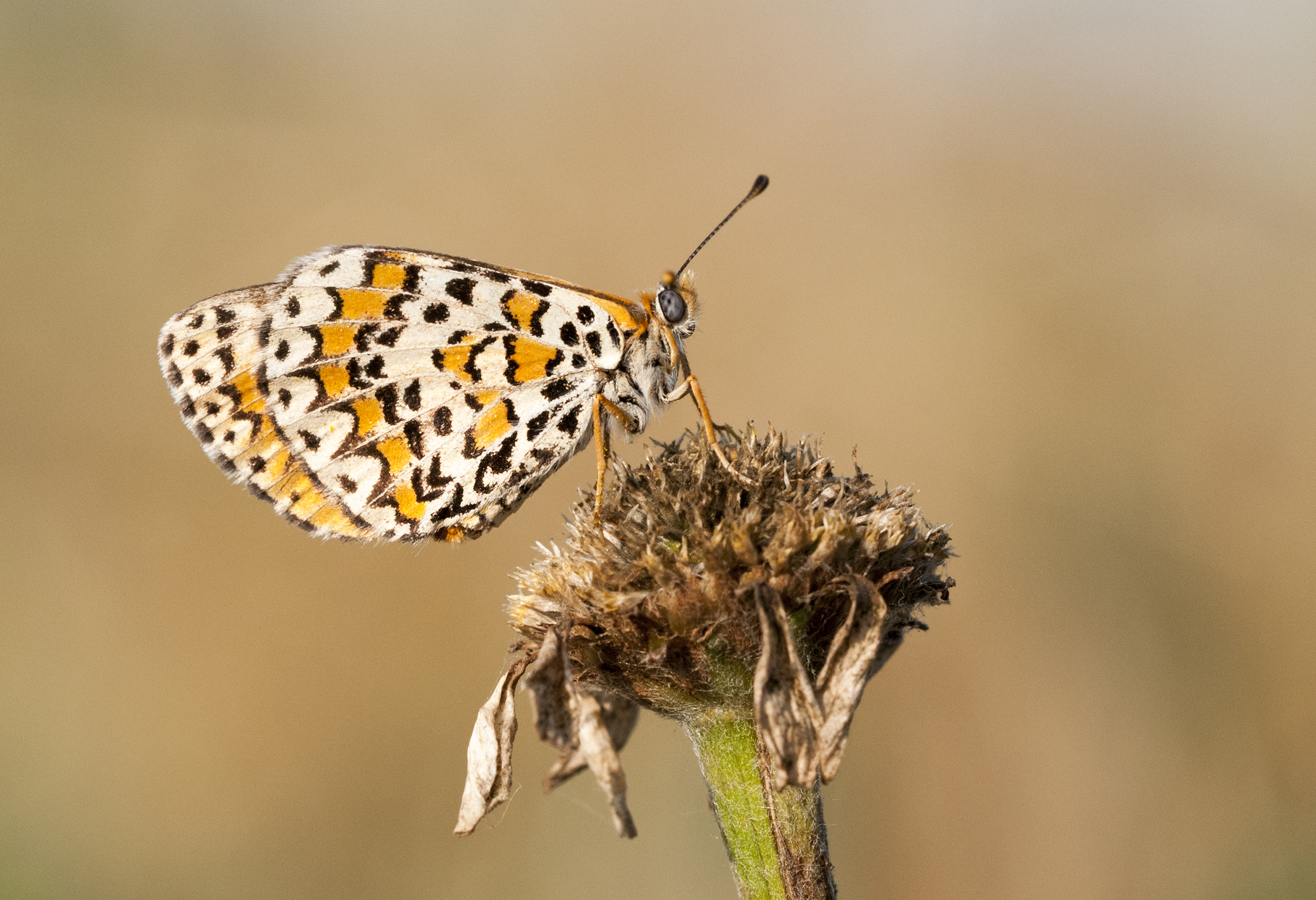 Wing underside view of a specimen of Lesser Spotted Fritillary (Melitaea trivia ssp. fascelis) butterfly. Balcalı, Adana - Turkey.